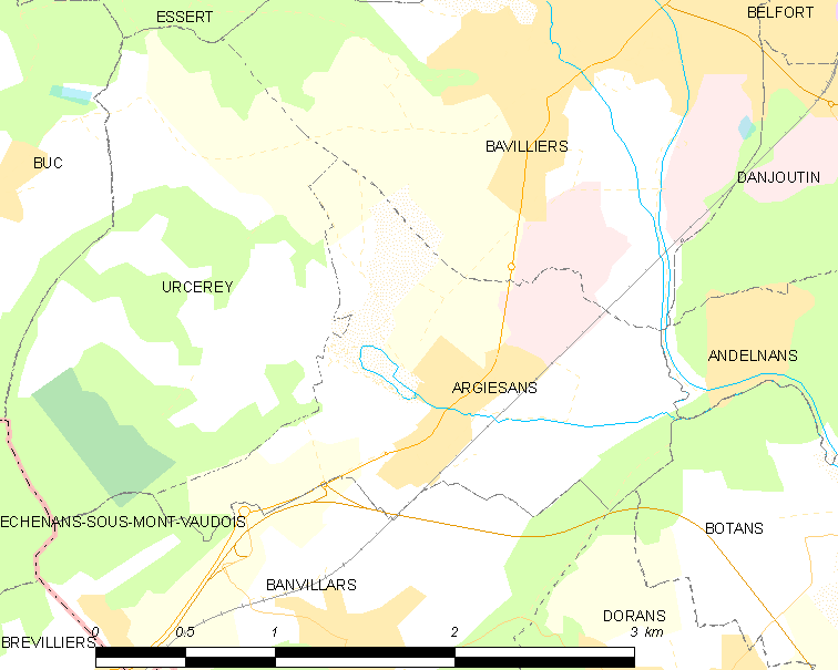 Map of French municipality Argiésans